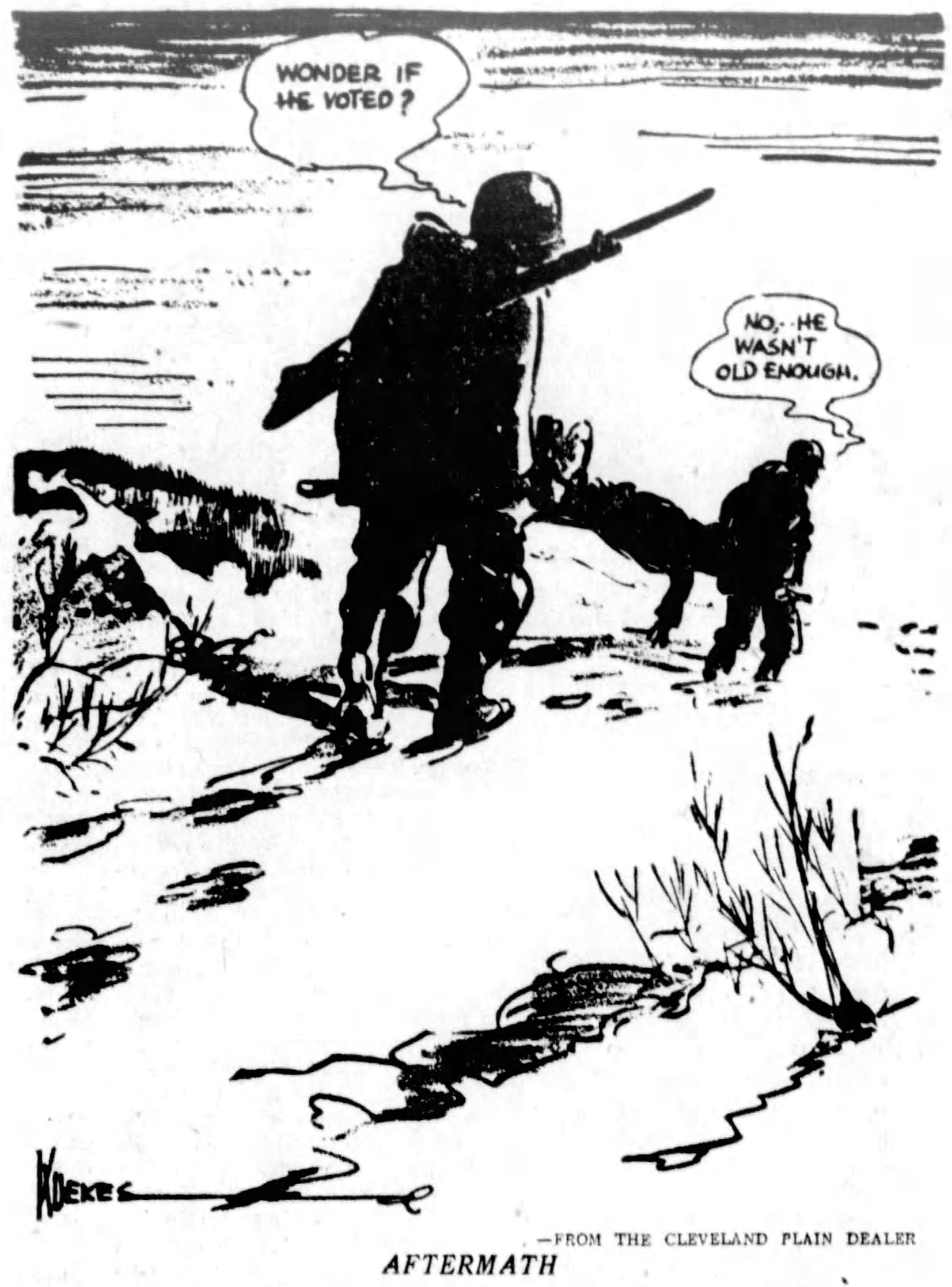 "Aftermath", an editorial cartoon published during the Korean War, commenting on the fact that Americans could be drafted into the military at age 18 but could not vote until age 21. Winner of the 1953 Pulitzer Prize for Editorial Cartooning.